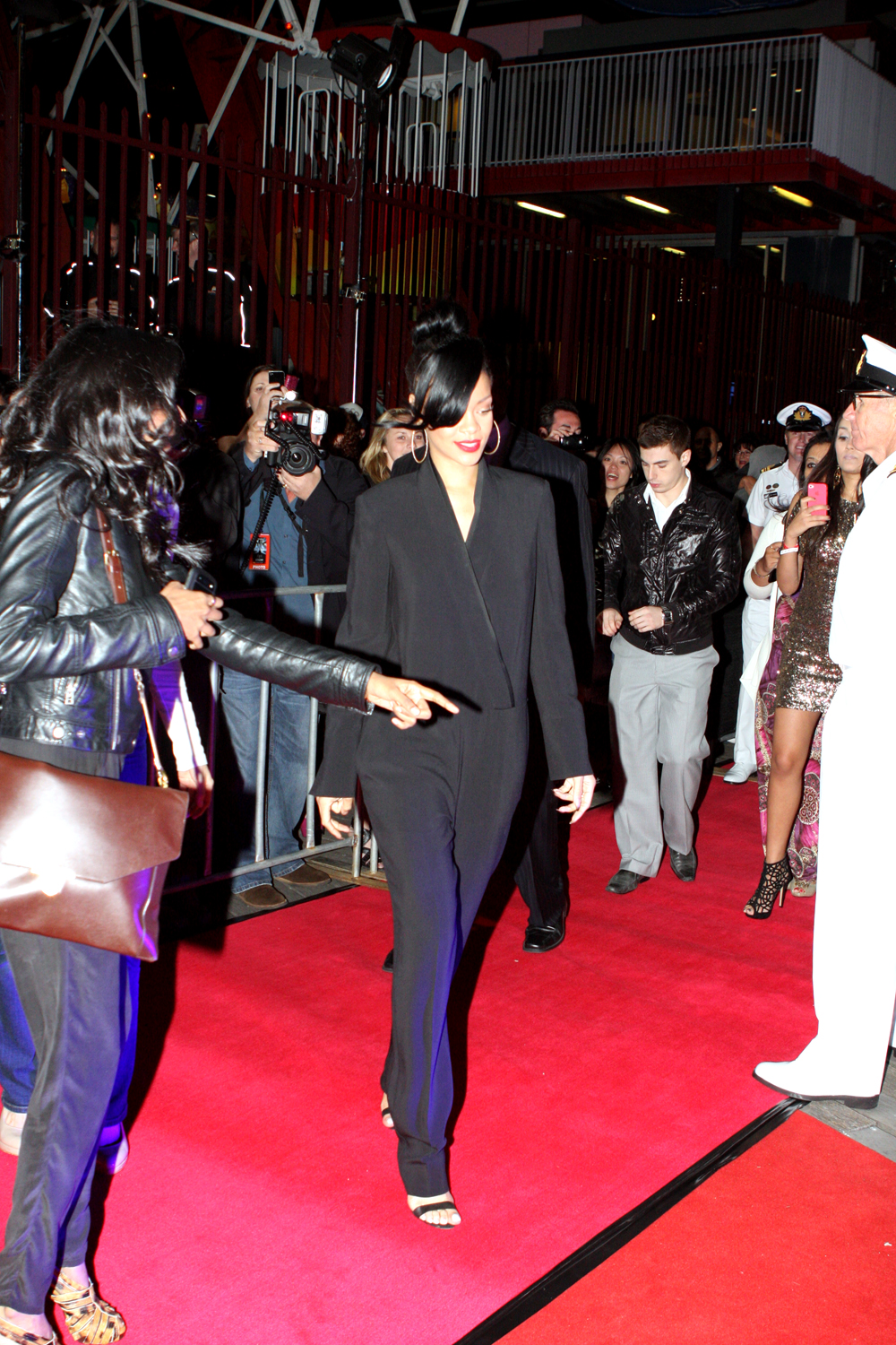 BATTLESHIP stars berth at Sydney; Luna Park; Taylor Kitsch, Rihanna, Brooklyn Decker, director Peter Berg Rihanna arrived (by BattleShip) - thanks to the Australian Navy and top brass Heath Robertson at approx 7pm and wore a black jumpsuit - much more conservative than what she normally wears on stage... perhaps to help protect herself from the cool breeze bouncing off Sydney Harbour. Rihanna wore the shirt with black leather Alexander Wang shorts and chunky gold jewellery, while Decker wore hers with dark jeans and nude heels. It's a bit different from the Barbados native's first meeting with Berg, who directed flicks such as Friday Night Lights, The Kingdom and Hancock.